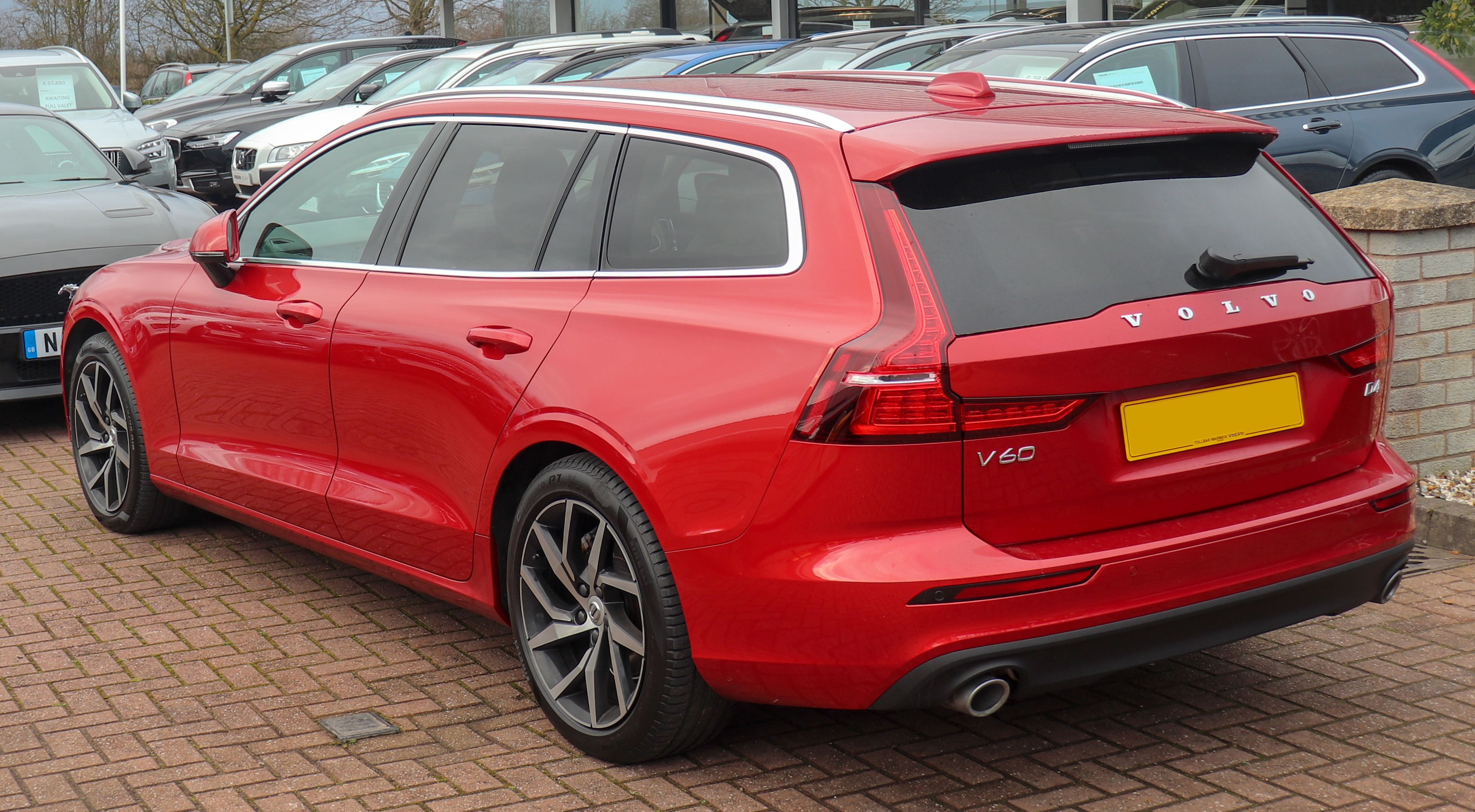 2018 Volvo V60 Momentum PRO D4 Automatic 2.0 Rear Taken in Leamington Spa